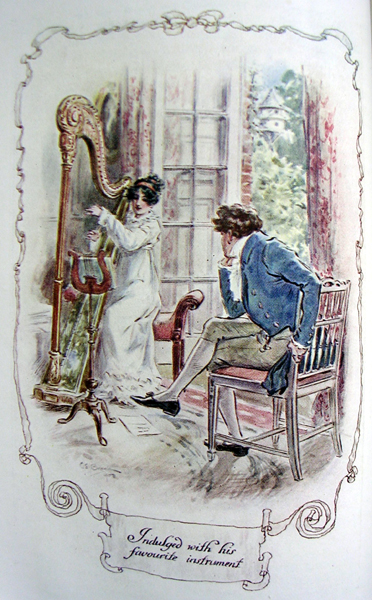 Ch. 7 of Mansfield Park, in the Series of English Idylls, published by J.M Dent & Co. (London) and E.P. Dutton & Co. (New York). " Indulged with his favourite instrument ".